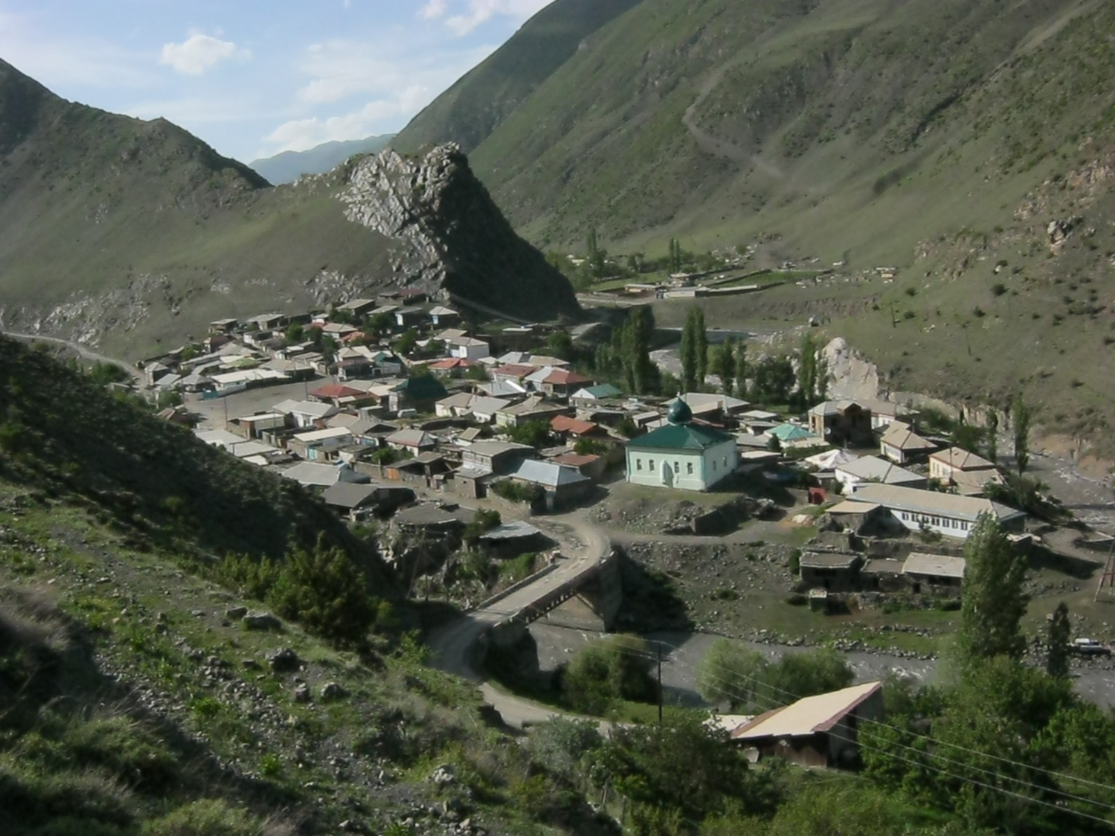 Luchek - ancient high mountain village in Dagestan